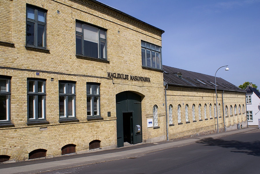 Maglekilde Maskinfabrik in Roskilde, Denmark